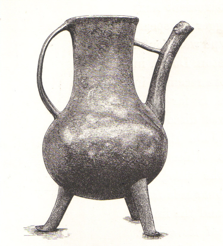 A ewer found in Lindston Loch during drainage works in 1790.